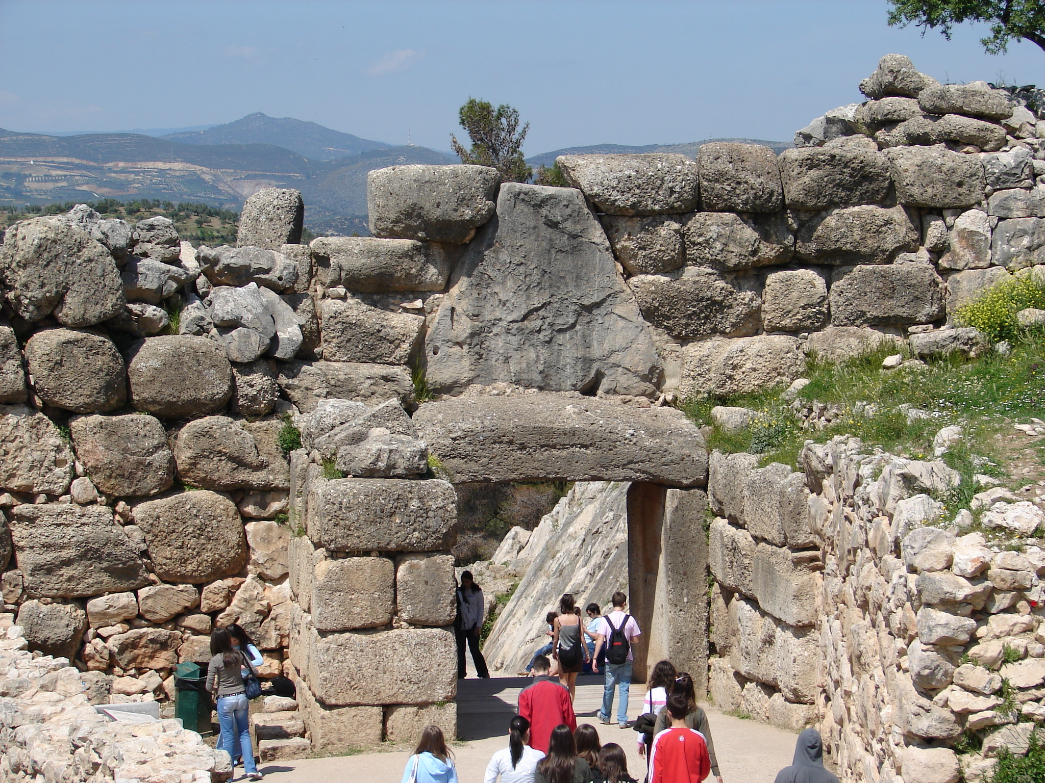 Lions gate cyclopean walls, at Mycenae, back